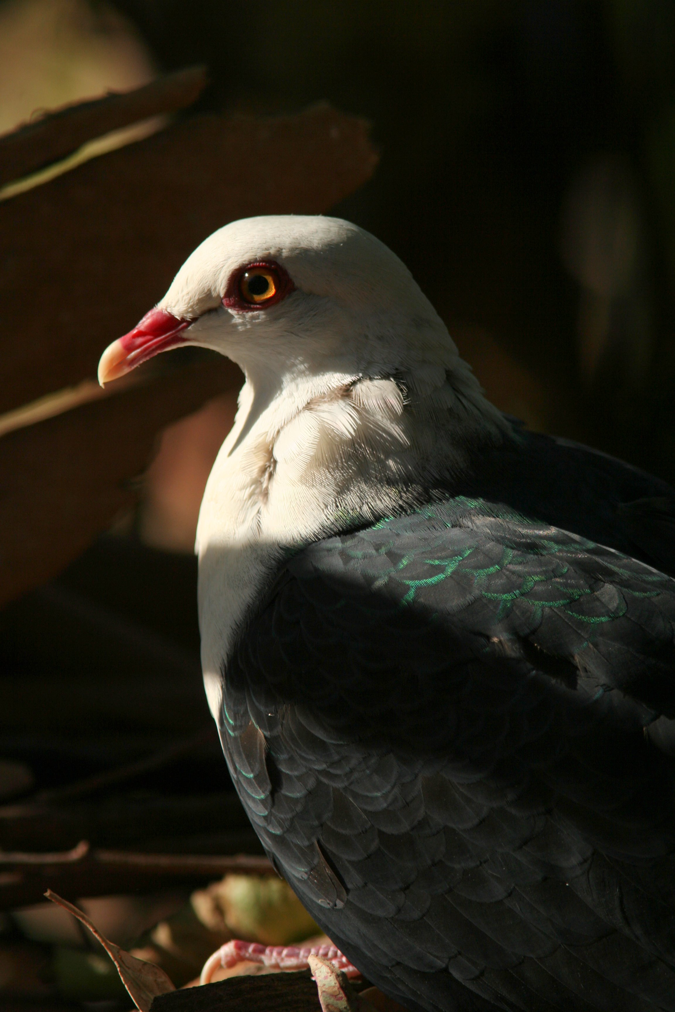 White-headed Pigeon